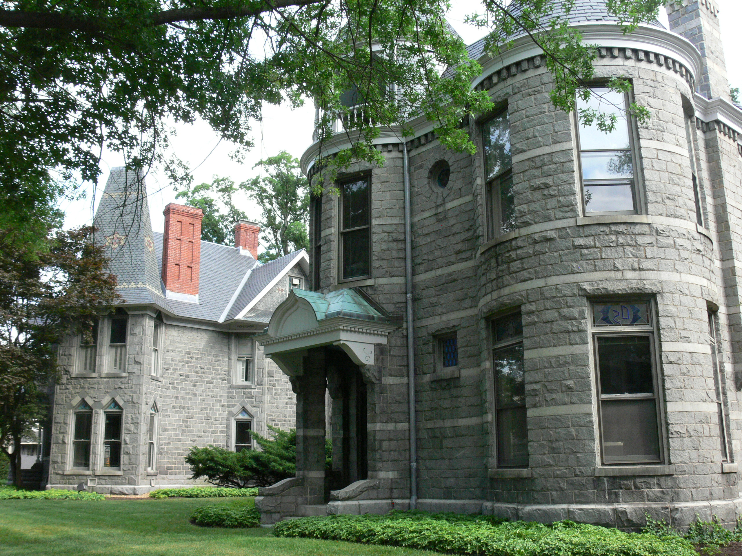 Houses on the 2900 Block of Grove Avenue in Richmond, Virginia, listed on the National Register of Historic Places. The buildings are presently part of the Studio School of the Virginia Museum of Fine Arts.